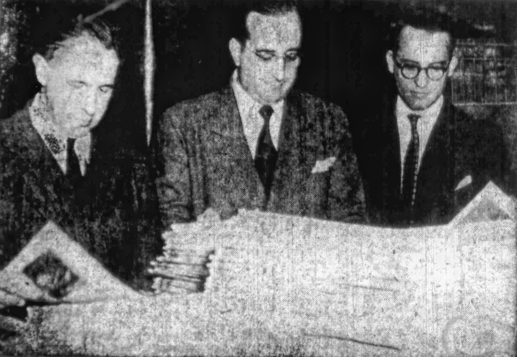 A photo of (left to right) Argentine industrialist Álvaro Alsogaray, Bartolome Bruera, an Argentine engineer, and César Augusto Bunge, an economic advisor to the Argentine Embassy in Washington, looking over the first batch of bagasse newsprint ever commercially produced and printed upon with a special edition of the Holyoke Transcript-Telegram.